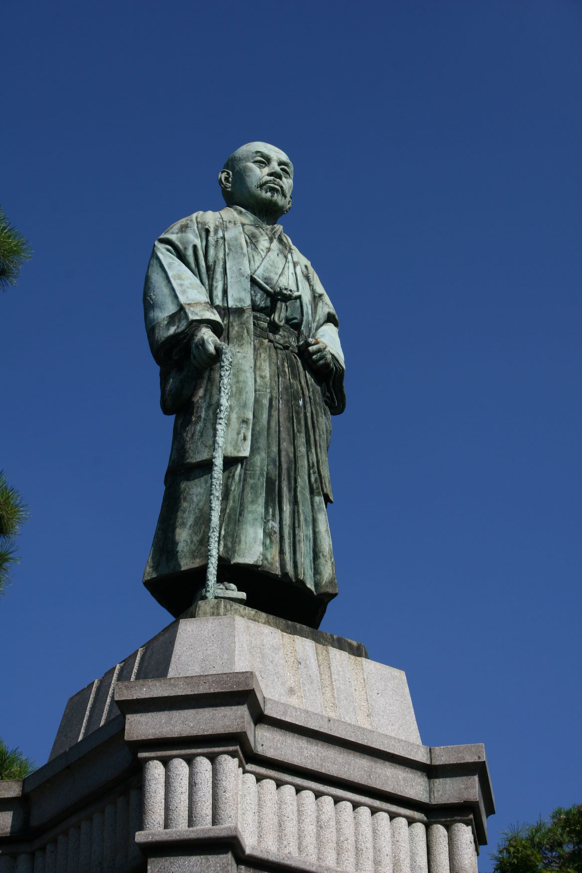 Naito Roichi Zou